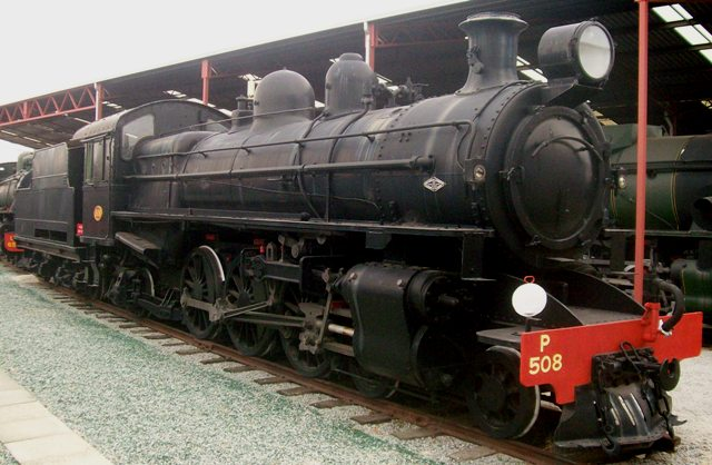 W.A.G.R. 'P' class 4-6-2 locomotive number 508 at the Bassendean Rail Transport Museum in Western Australia. Taken by myself, Timothy Joel, in 2007 using Kodak EasyShare C633.